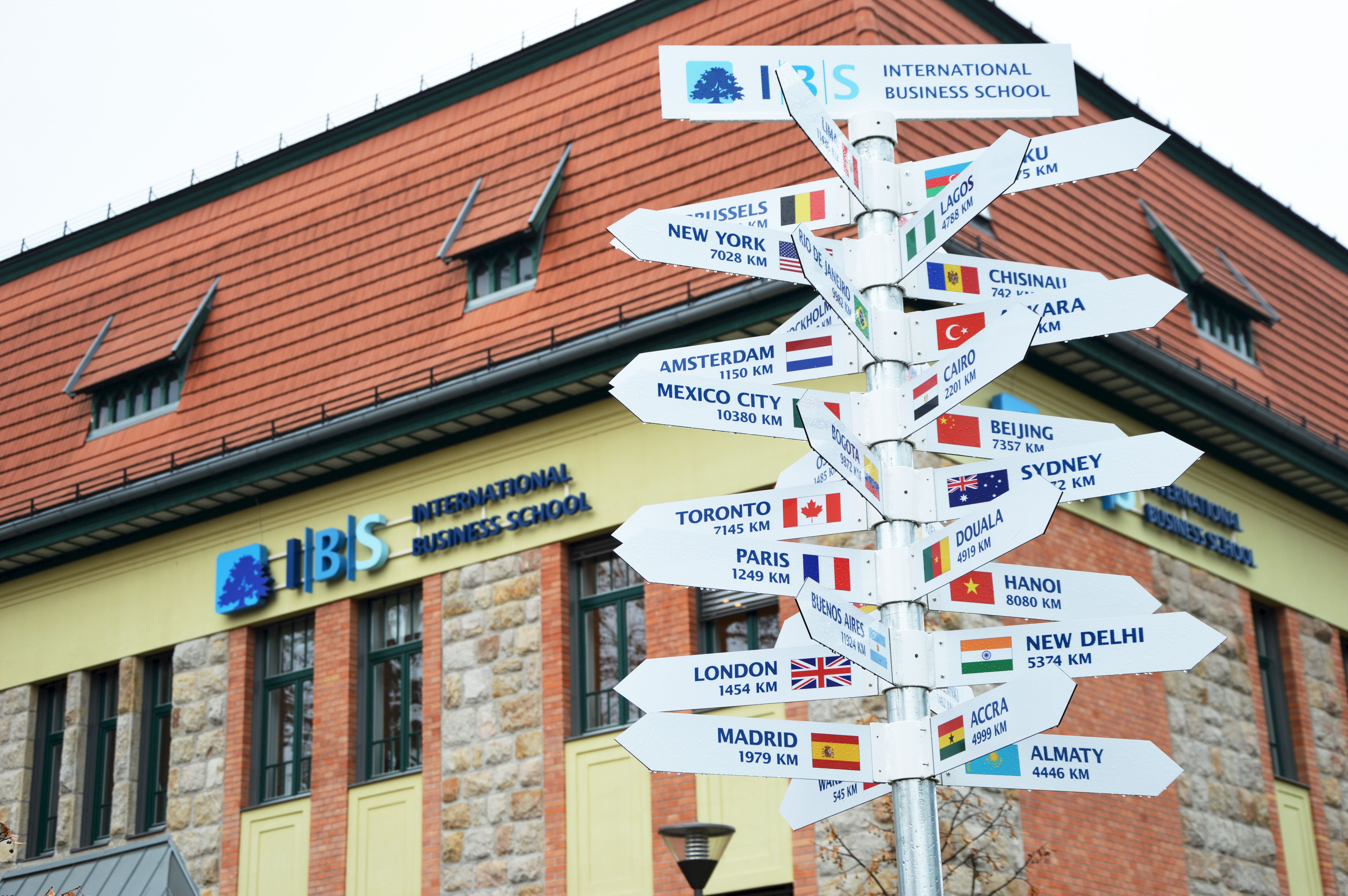 Students form more than 100 countries of the world.